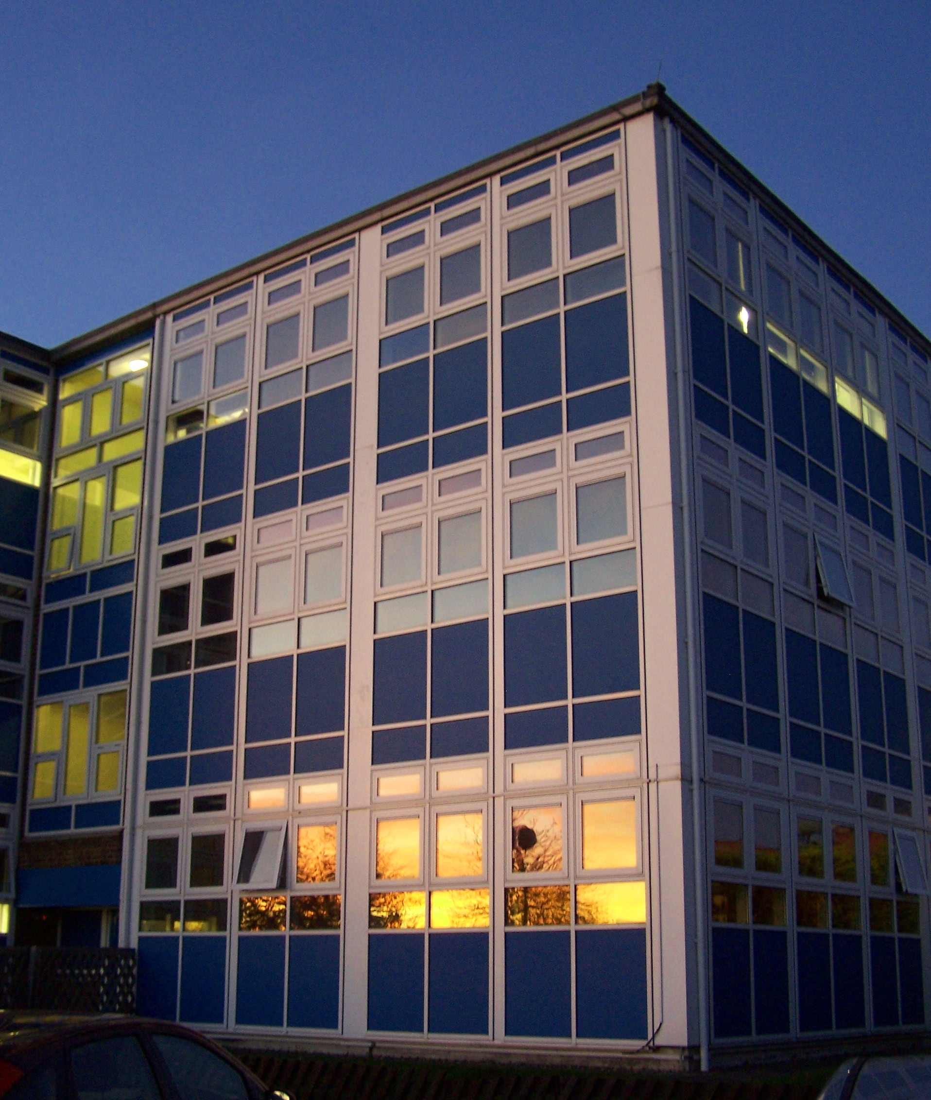 Derby Moor Community Sports College & The Millennium Sixth Form Centre. Moorway Lane, Littleover Derby. At sunset. This bit was Derby School at one time